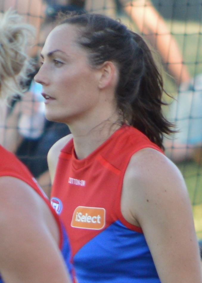 Meg Downie at the AFL Women's practice match between Collingwood and Melbourne in January 2018